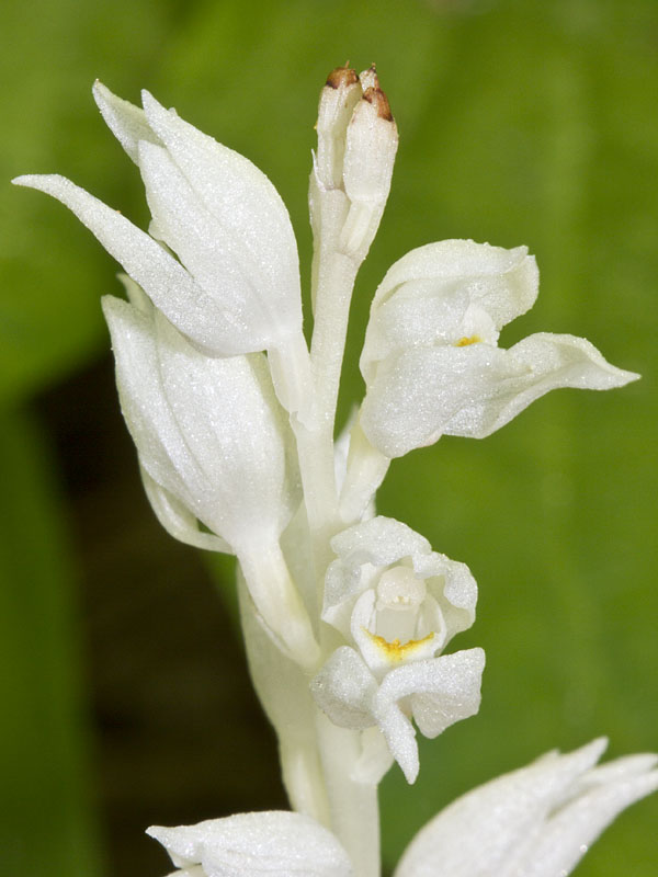 Cephalanthera austiniae — Phantom Orchid. In the Sierra Nevada (June 29), Tuolumne County, California.